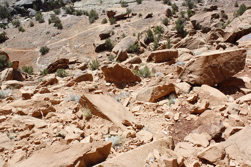 Rocks in the Grand Valley to the south west of Fruita, Colorado.